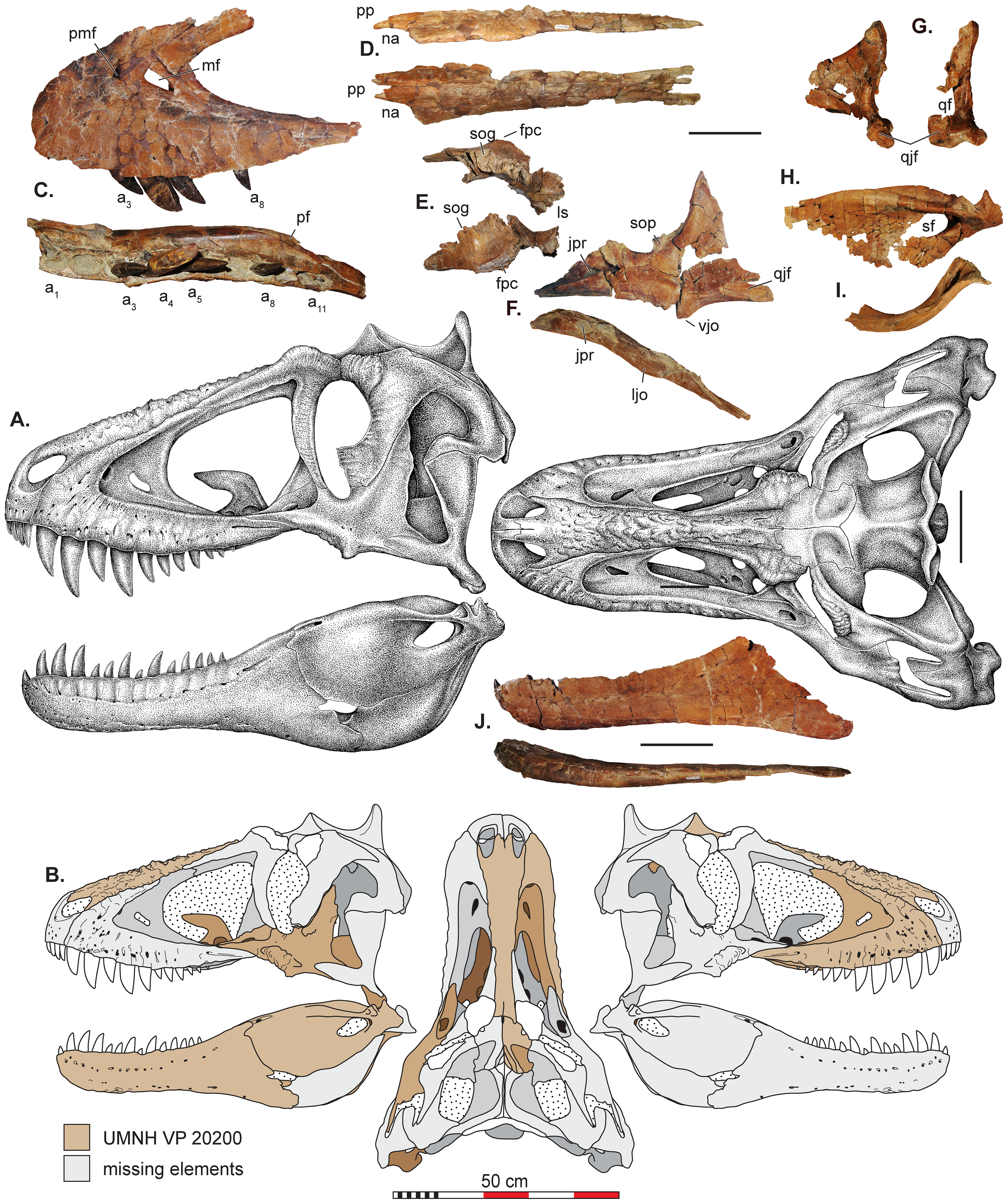 Skull reconstructions and selected cranial elements of Lythronax argestes. These stippled reconstructions (A) are based on cranial elements recovered (B) for UMNH VP 20200. Selected elements of L. argestes holotype (UMNH VP 20200) including: (C) maxilla in lateral (photoreversed) and ventral views; (D) nasal in left lateral and dorsal view; (E) photoreversed frontal and laterosphenoid in lateral and dorsal view; (F) jugal in left lateral and dorsal view; (G) quadrate in left lateral and caudal view; (G) surangular in left lateral view; (I) prearticular in left lateral view; (J) dentary in lateral and ventral views. Abbreviations: a1-a11, alveoli 1–11; fpc, frontoparietal midsagittal crest; jf, jugal flange of the quadrate; jpr, jugal pneumatic recess; ljo, lateral jugal ornamentation; ls, laterosphenoid; mf, maxillary fenestra; na, naris; pf, palatine flange; pp, premaxillary process of nasal; qf, quadrate foramen; qjf, quadratojugal facet; sf, surangular foramen; sog, supraorbital groove; sop, suborbital process; vjo, ventral jugal ornamentation. Scale bars in A and C–J represent 10 cm and scale bar in B represents a total of 50 cm.